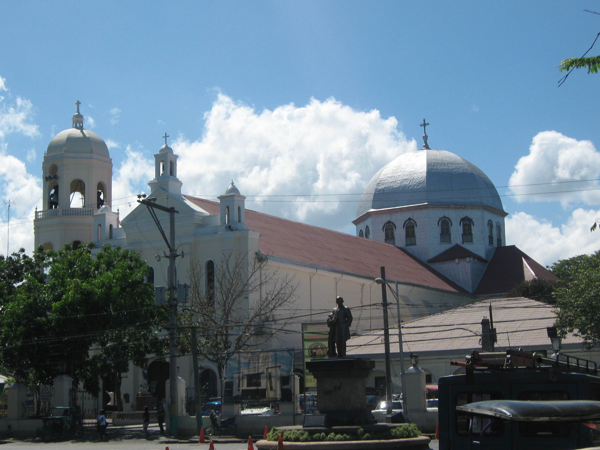 This image depicts the church of Basilica of the Immaculate Conception Parish located in Poblacion, Batangas City, Philippines. Tagalog: Ipinapakita ng larawang ito ang simbahan ng Parokya ng Basilica Immaculada Concepcion na matatagpuan sa Poblacion, Lungsod ng Batangas, Pilipinas.